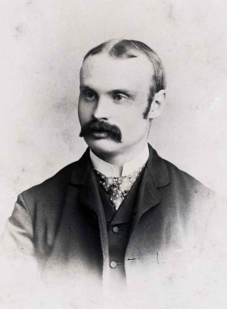 Portrait photograph of Frederick Geo Whibley